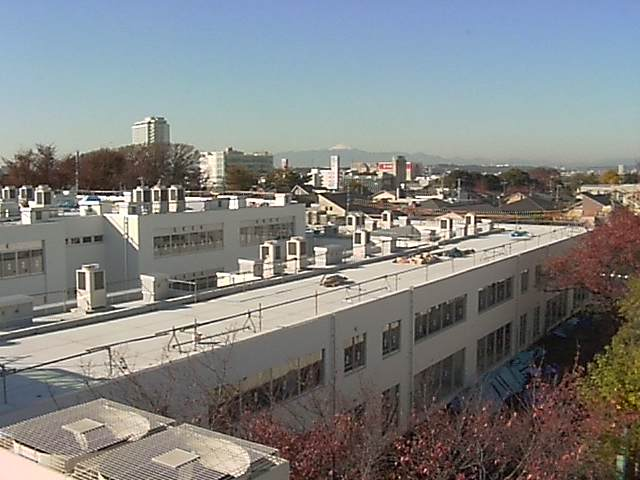 Webcam view of the St. Mary's construction project, with Mt. Fuji in the background.